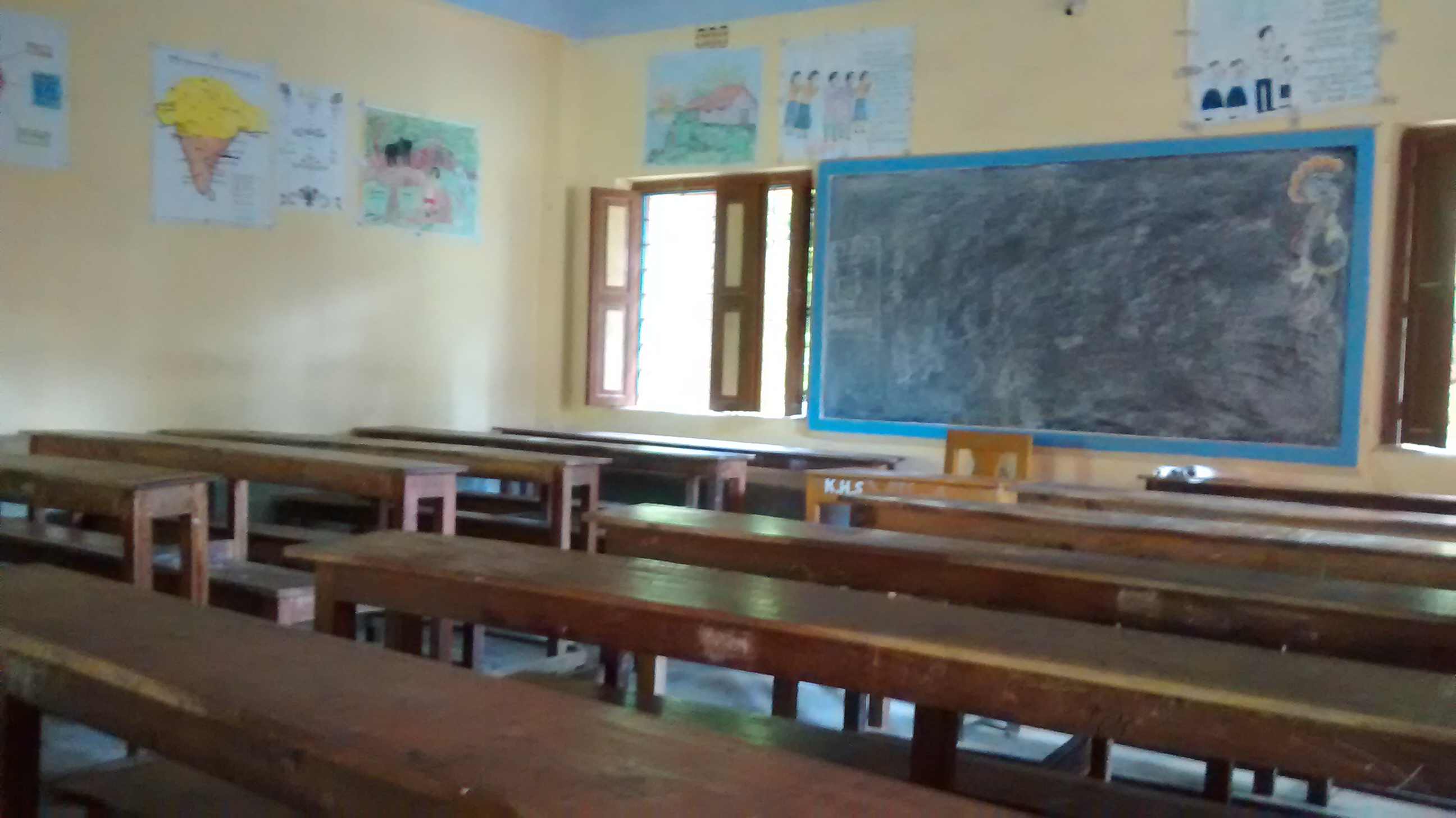 Keshabpur High School Class Room